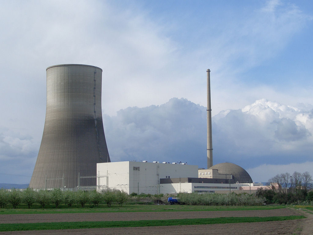 Mülheim-Kärlich Nuclear Power Plant in Mülheim-Kärlich